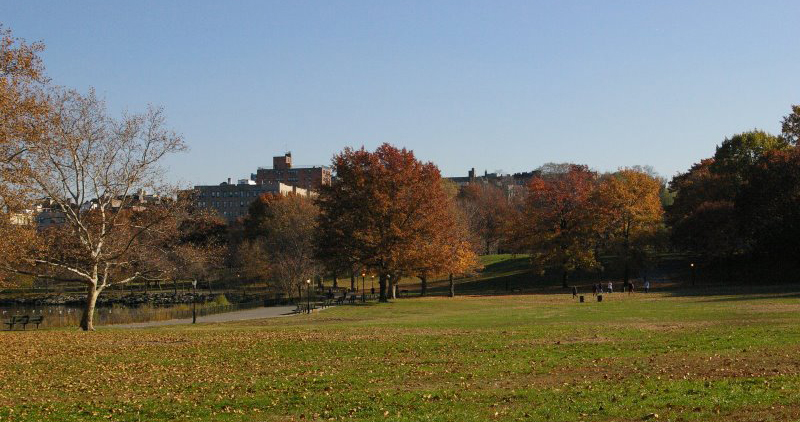 Looking eastward in Inwood Hill Park.